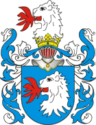 Herb Zadora Zadora Clan File:POL COA Zadora.svg is a vector version of this file. It should be used in place of this raster image when not inferior. File:Herb Zadora.PNG File:POL COA Zadora.svg For more information, see Help:SVG. In other languages